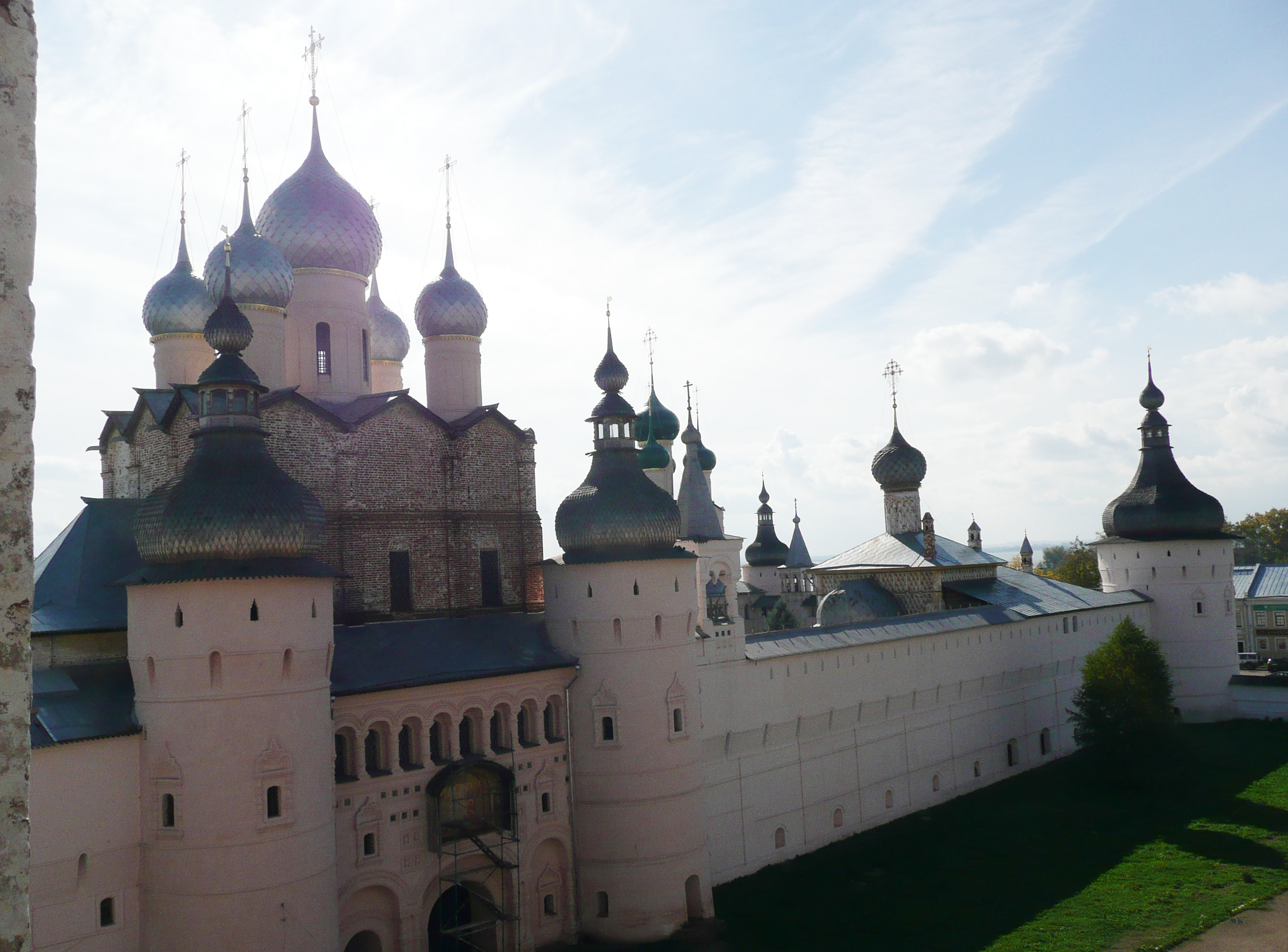 The Rostov Kremlin